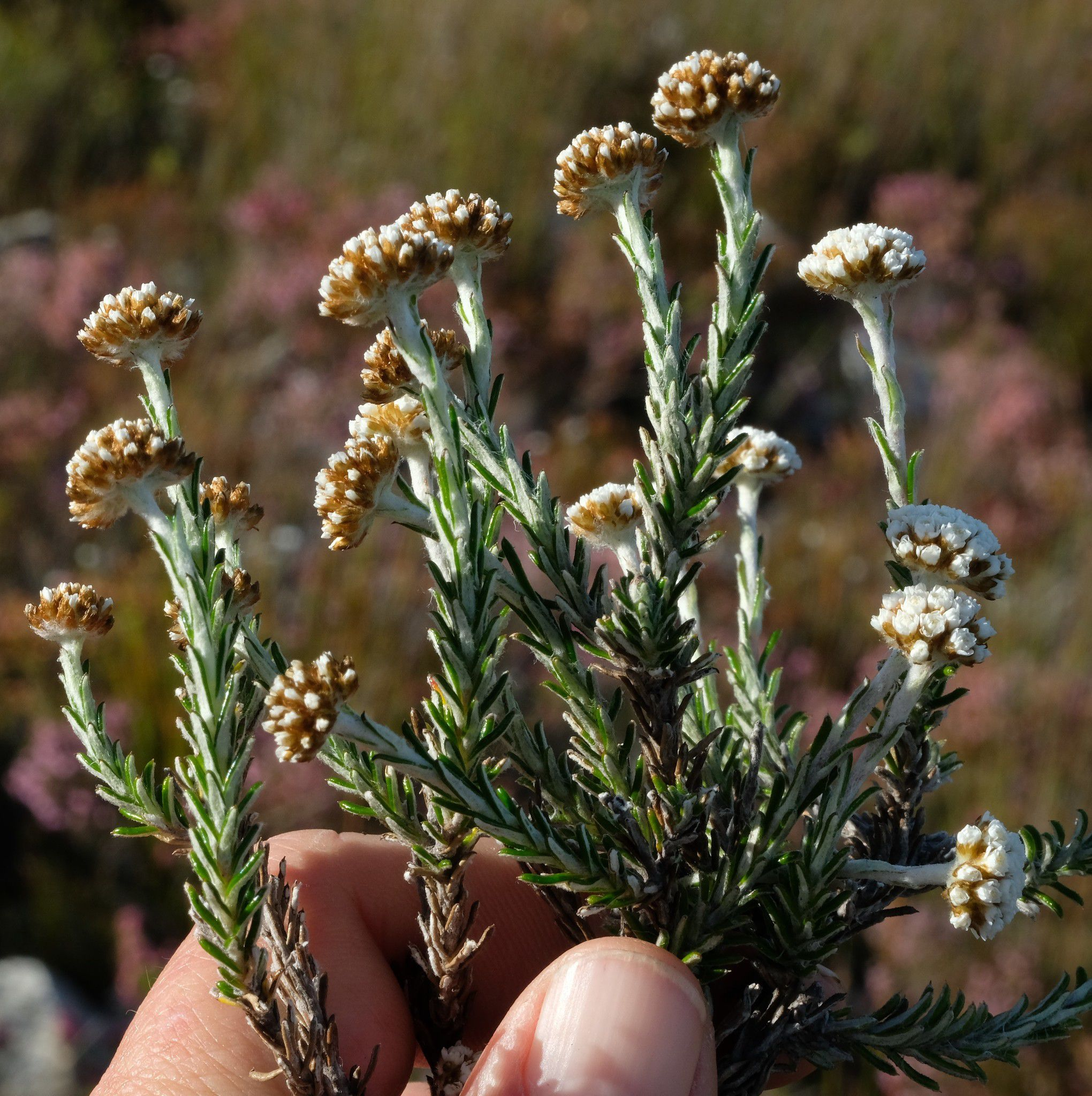 Anaxeton brevipes plant observed in South Africa